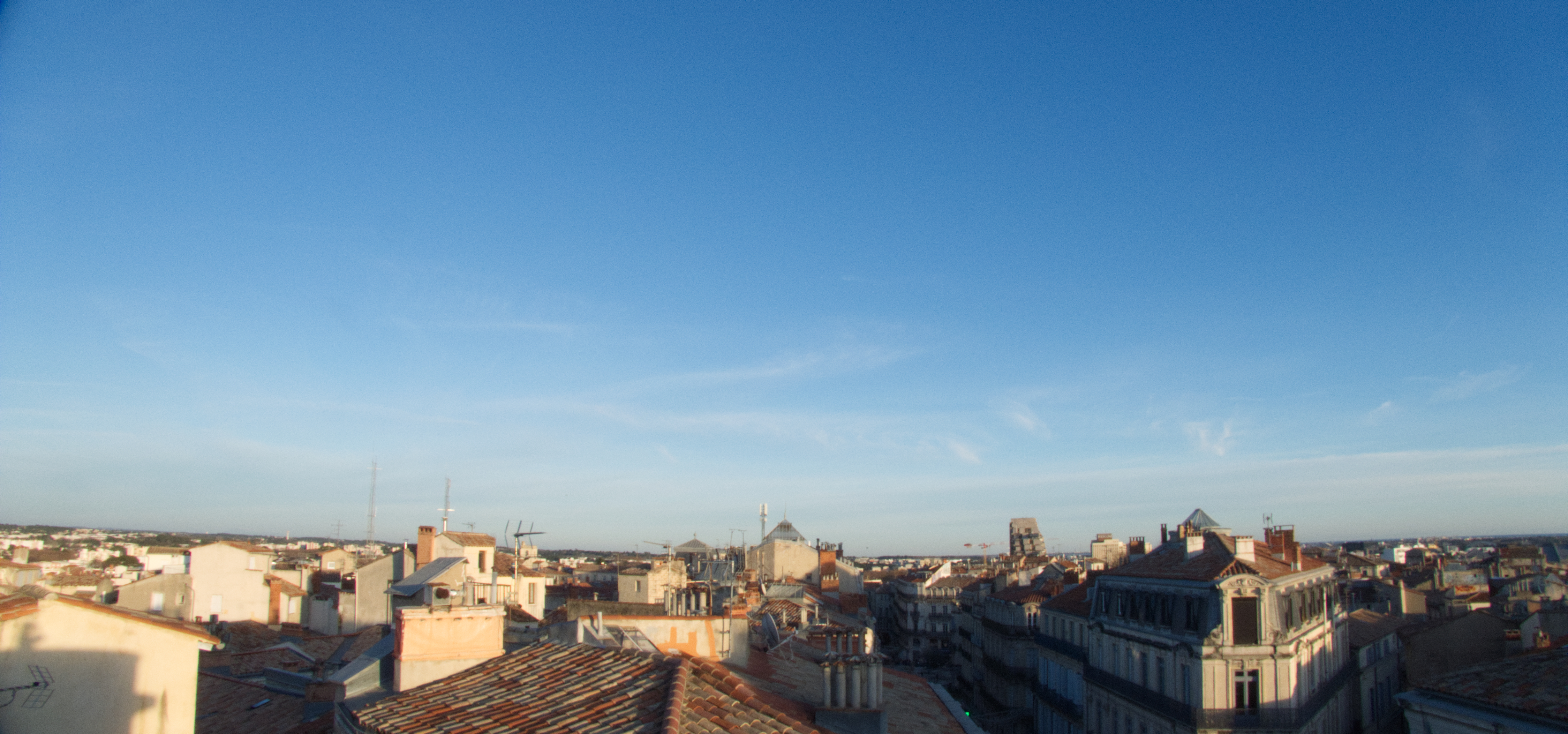 View of the district of l'Écusson from the rue Foch.